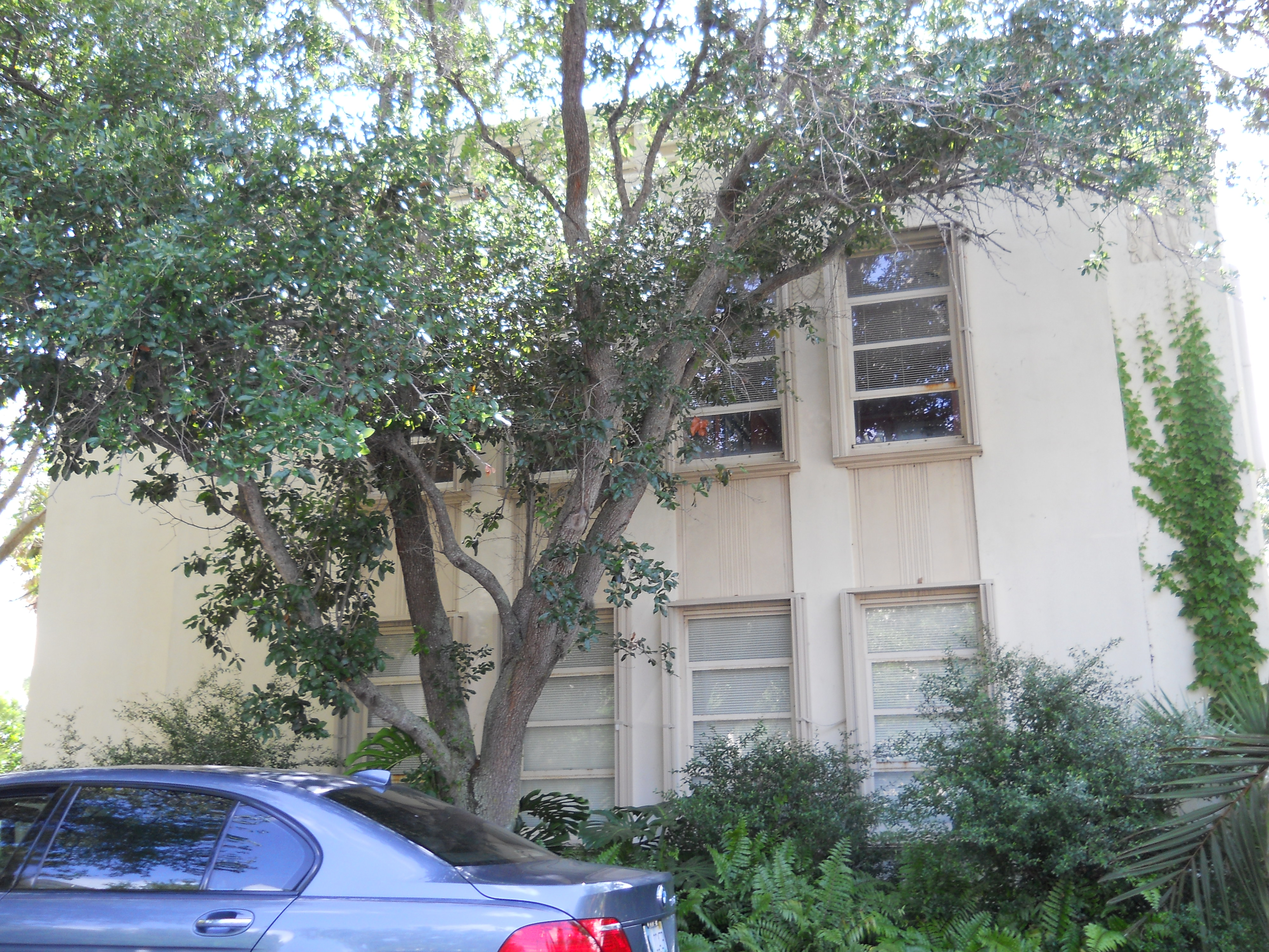 Old Martin County Courthouse, Stuart, Florida: East side facade. In 1954 this side was covered by the construction of an east wing which was later demolished which the new courthouse and constitutional offices complex was built.